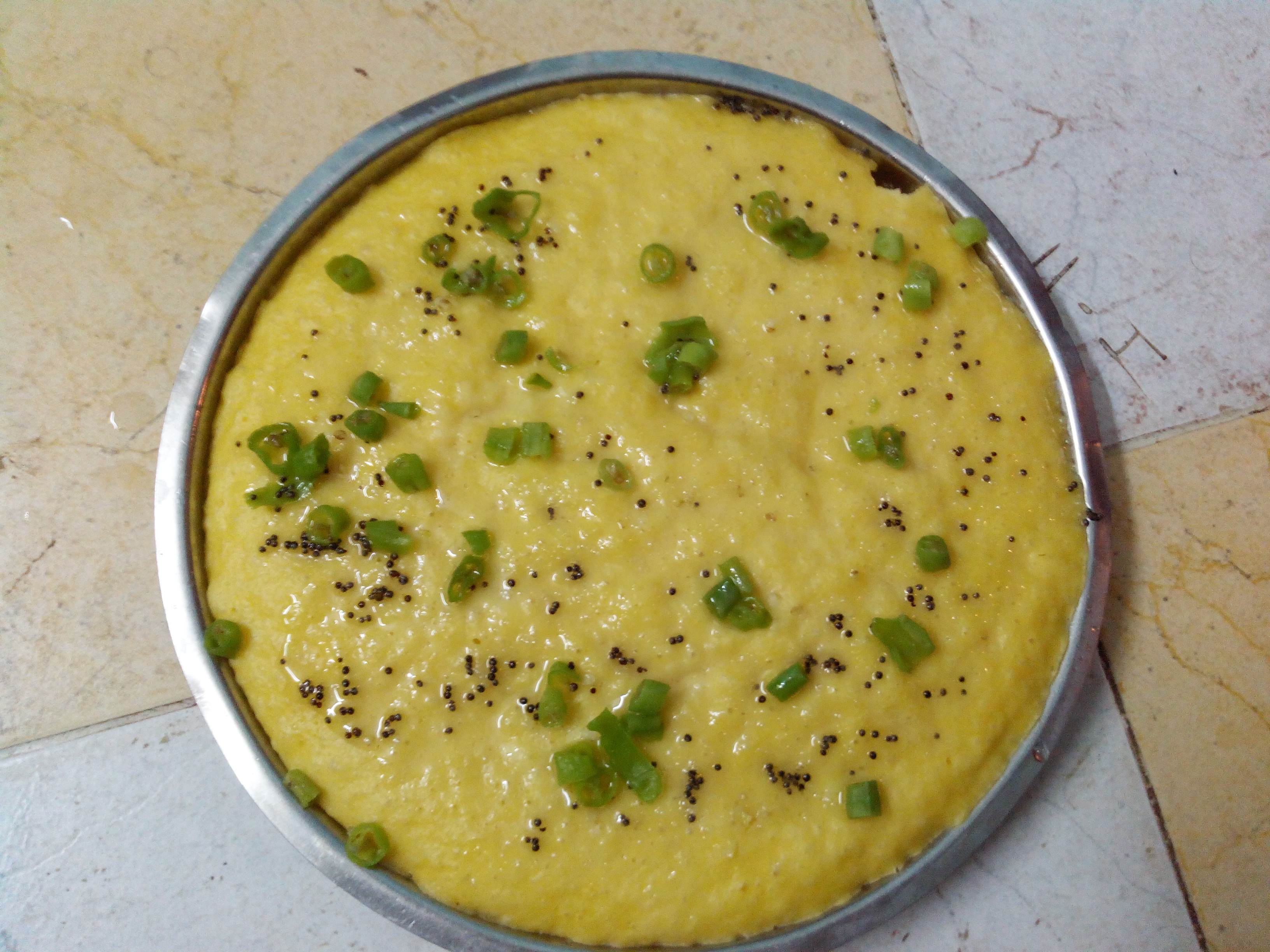 Khaman is a traditional snack food from Gujarat state, India.